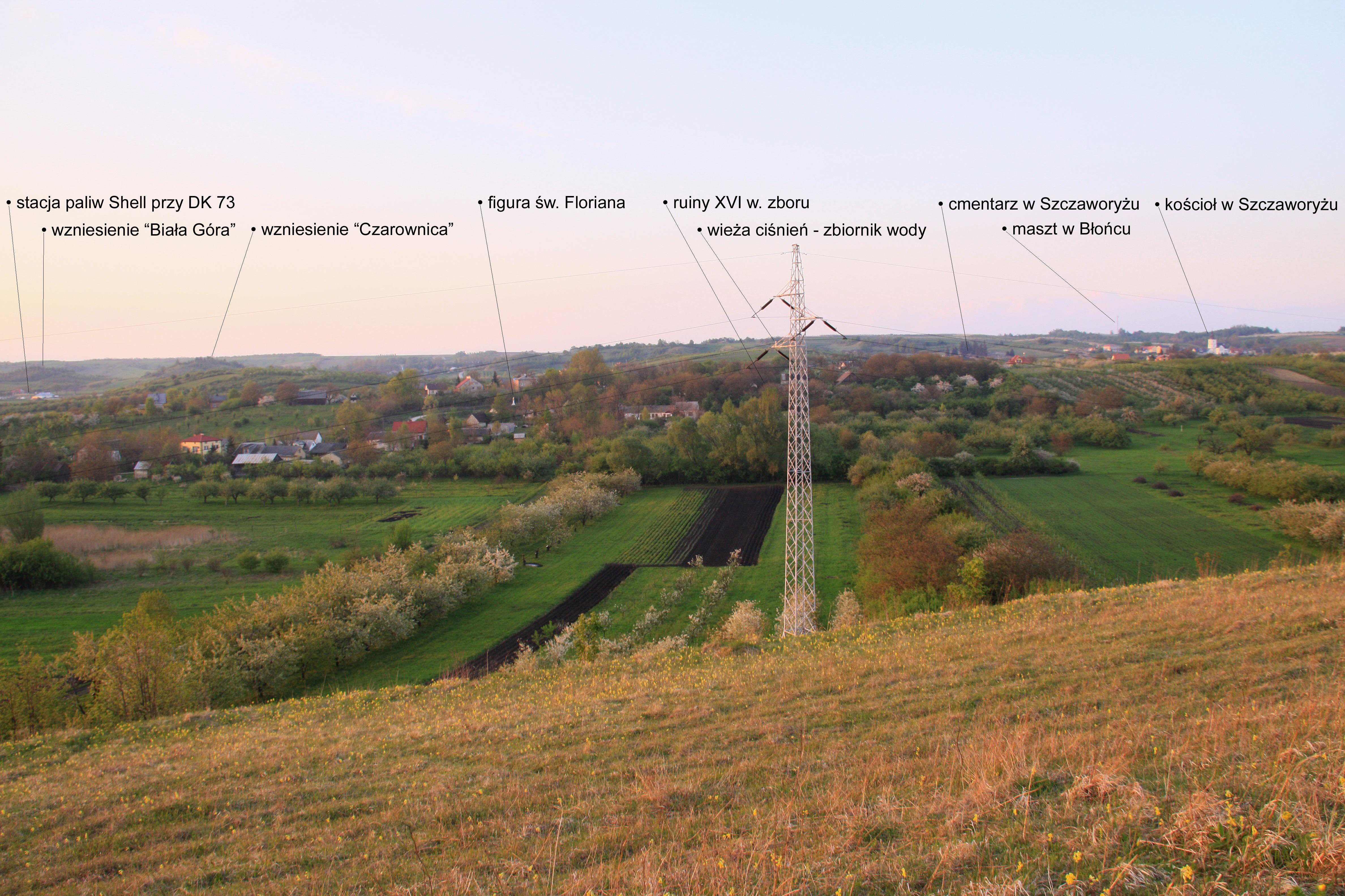 Pęczelice - panorama of village from Ostra Góra